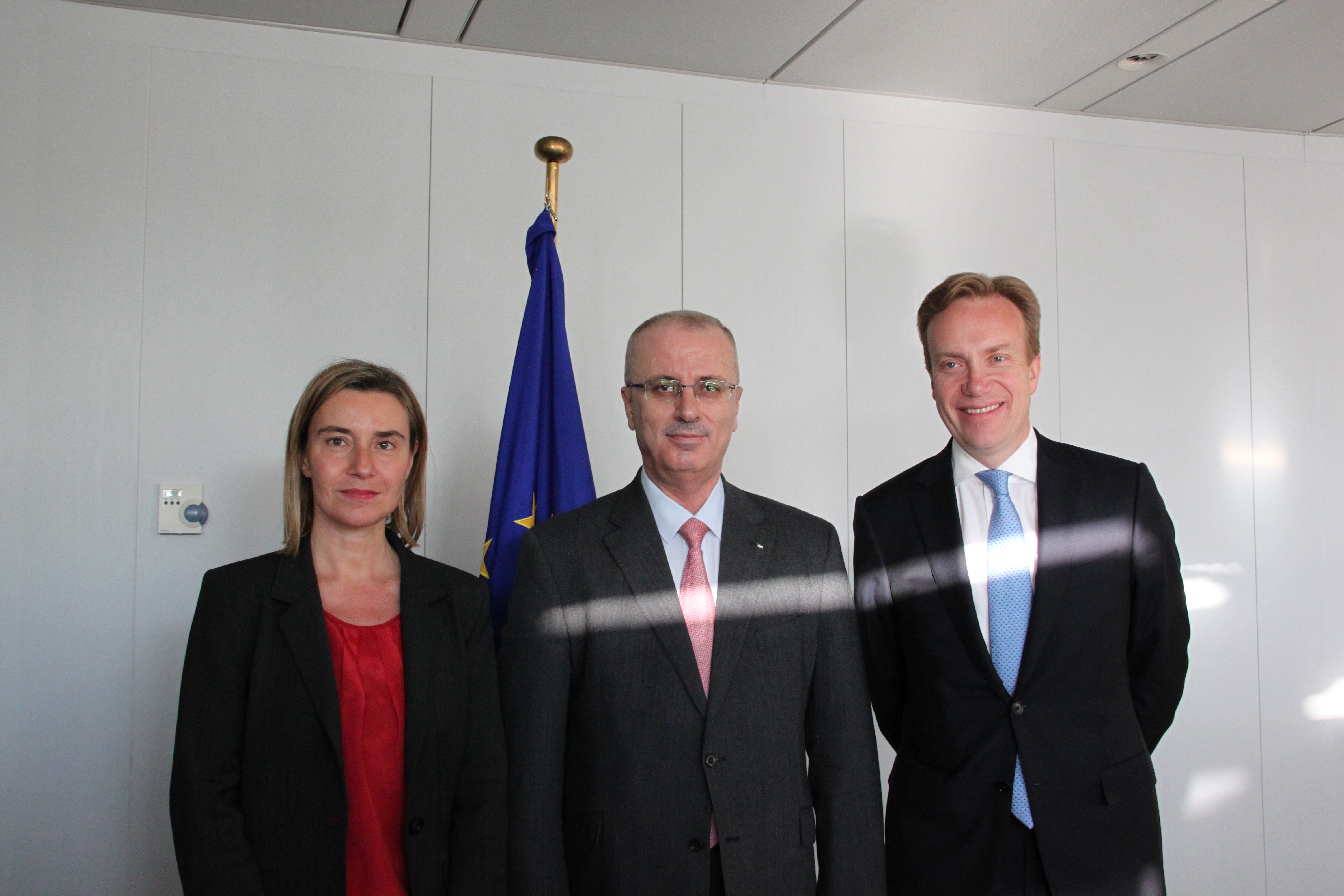 The annual spring meeting of the donor coordination group for the Palestinian people, the Ad Hoc Liaison Committee (AHLC) was held in Brussels 27 May 2015. The meeting was hosted by EU High Representative/Vice-President Federica Mogherini, and presided by Norwegian Foreign Minister Børge Brende in his capacity as the Chair of the AHLC. Photo: Lars-Erik Hauge, Mission of Norway to the EU